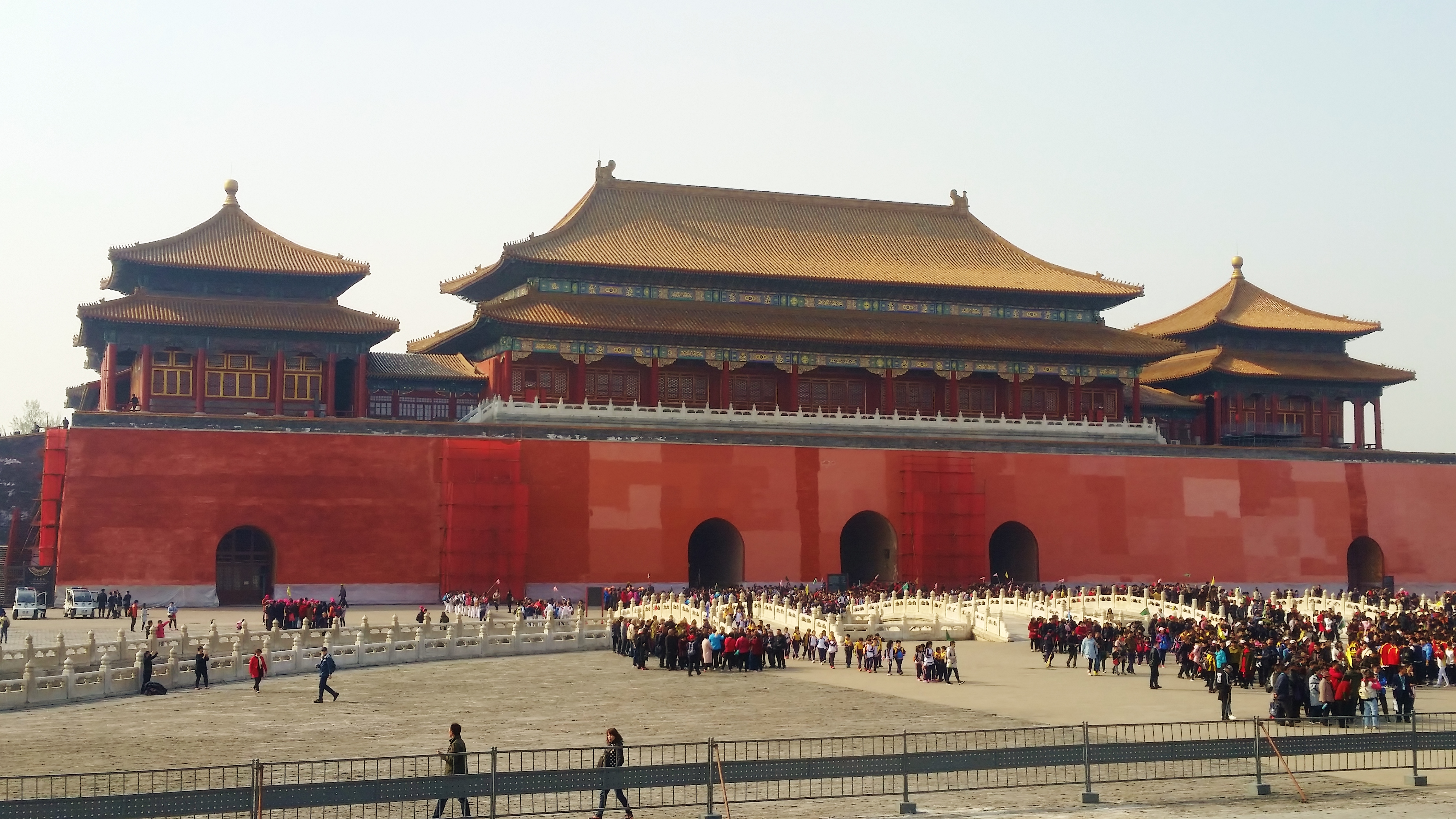 Forbidden City - Meridian Gate View from North